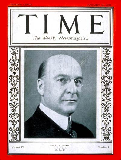 Pierre Samuel du Pont, TIME Magazine cover, January 31, 1927